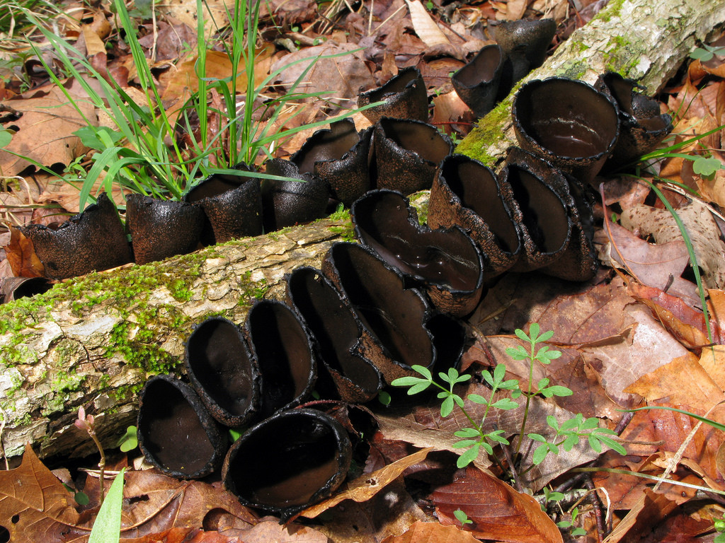 The "Devil's Urn", fungal species Urnula craterium (Schweinitz) Fries. Photographed in McFarland Hollow, Jackson Co., AL, USA.